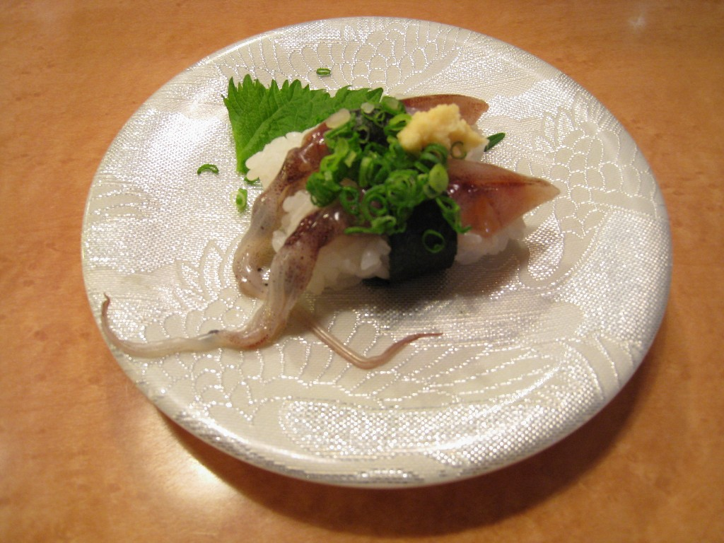 Nigiri-zushi of Sparkling Enope Squid (ホタルイカ Hotaru-ika)